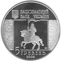 Coin of Ukraine